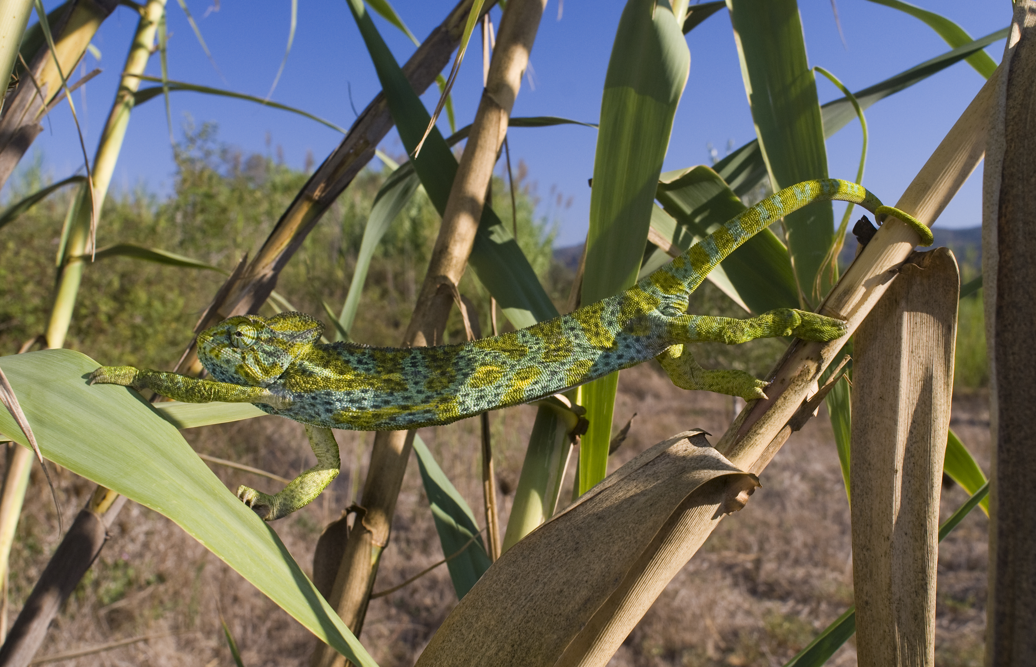 climbing female of Chamaeleo africanus